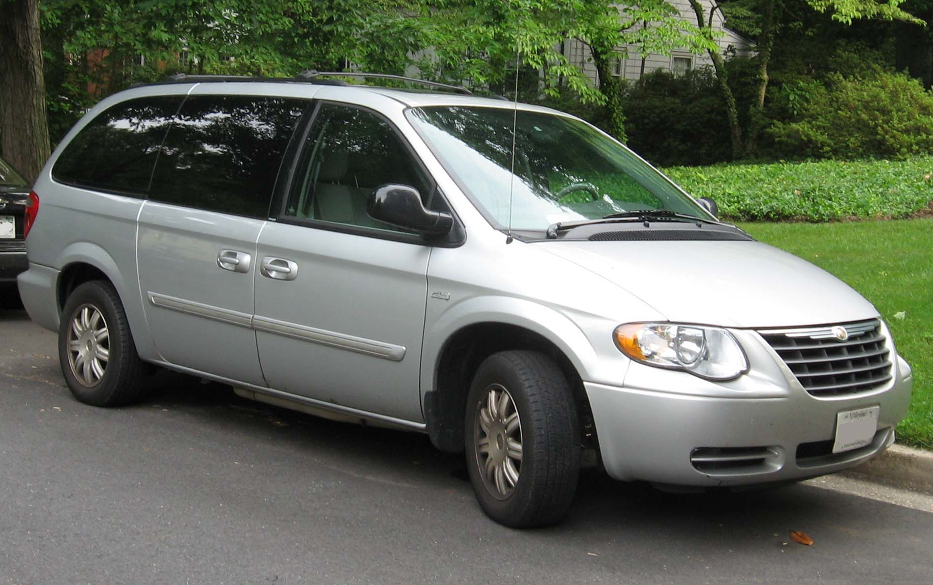 2005-2007 Chrysler Town and Country photographed in USA.